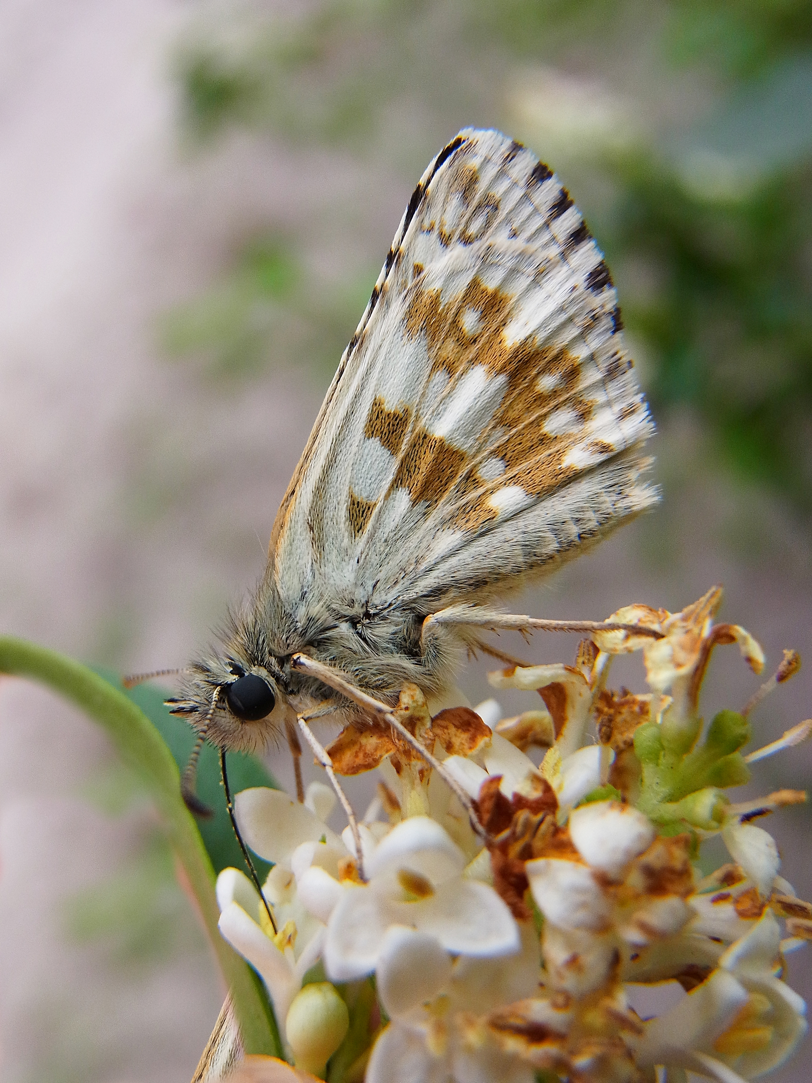 Pyrgus carthami from Hungary near Kelebia at 2012-05-25